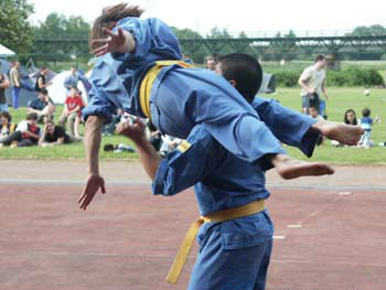 Flying Scissors to the neck, executed during the "Gio-To-Festival" from May, 29 to May, 31 2005 in Minden, Germany.